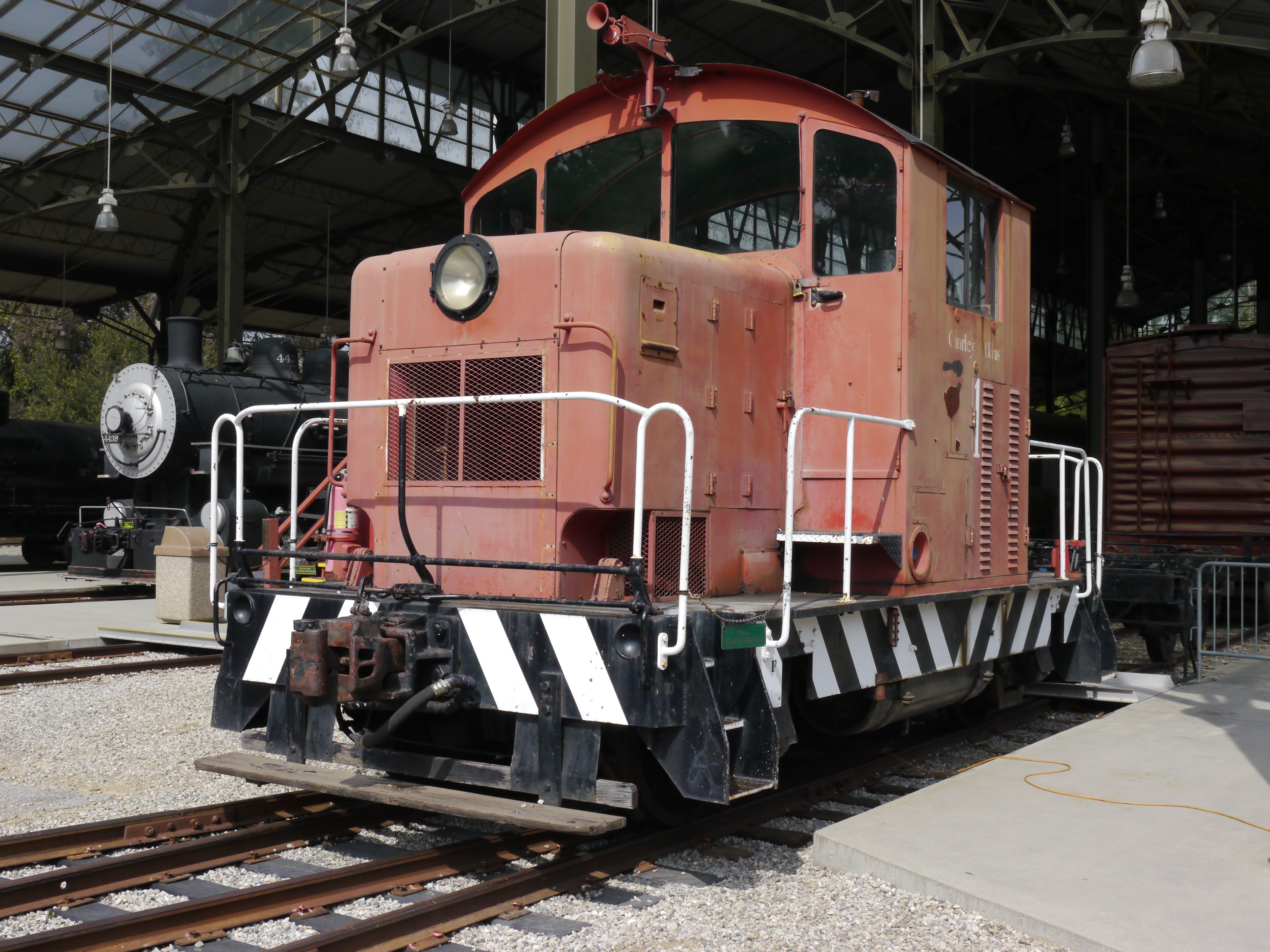 USA 2012 0235 - Los Angeles - Travel Town